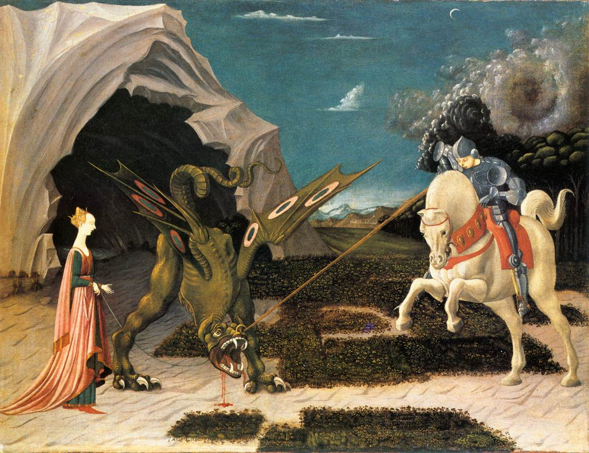 UCCELLO, Paolo St. George and the Dragon Oil on canvas, 57 x 73 cm National Gallery, London